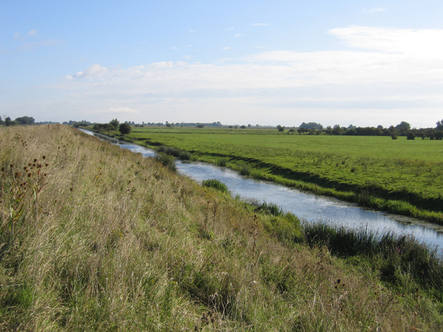 Old Bedford River and Ouse Washes, Mepal